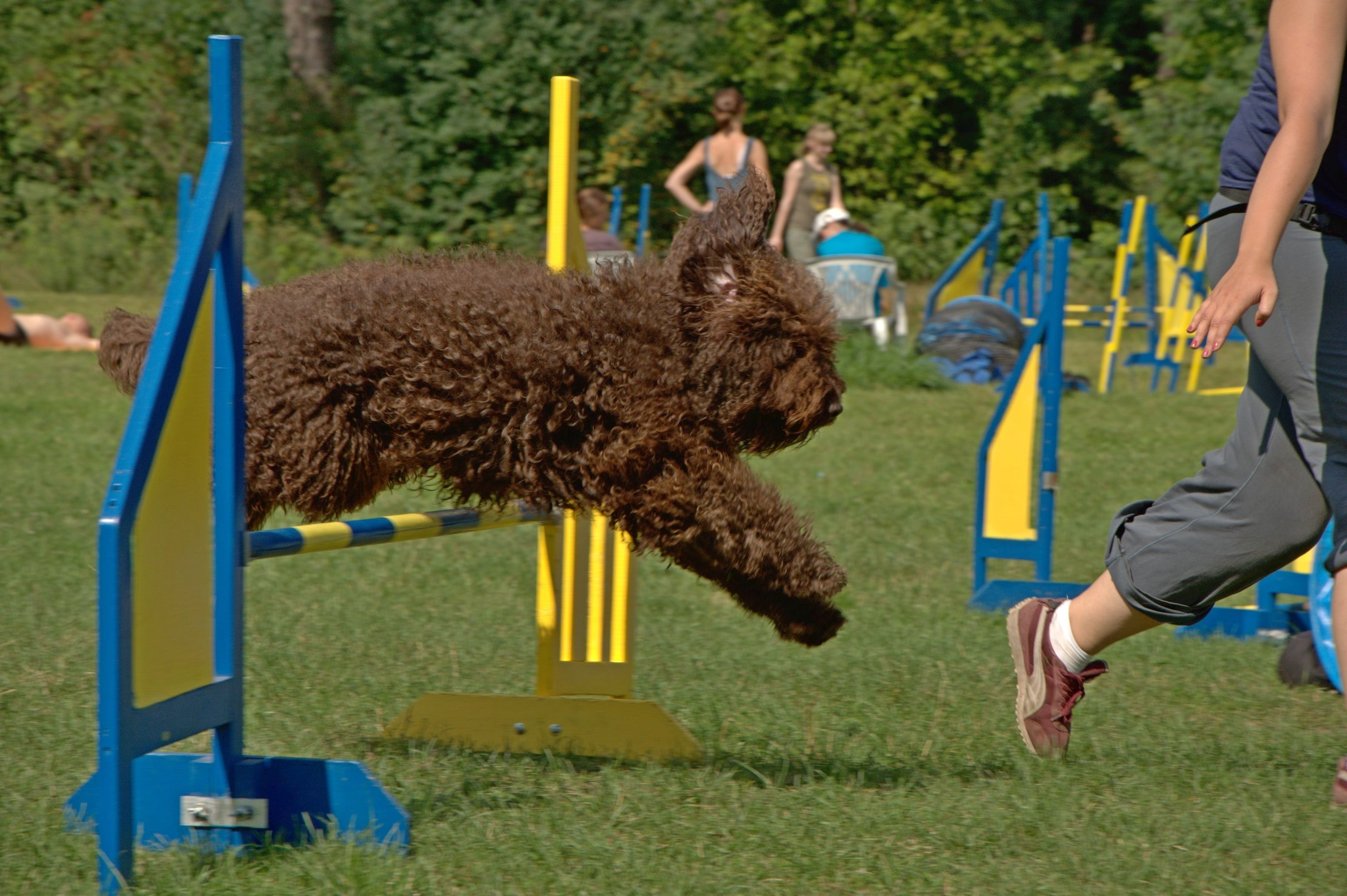 Barbet jumping over winged single jump on agility